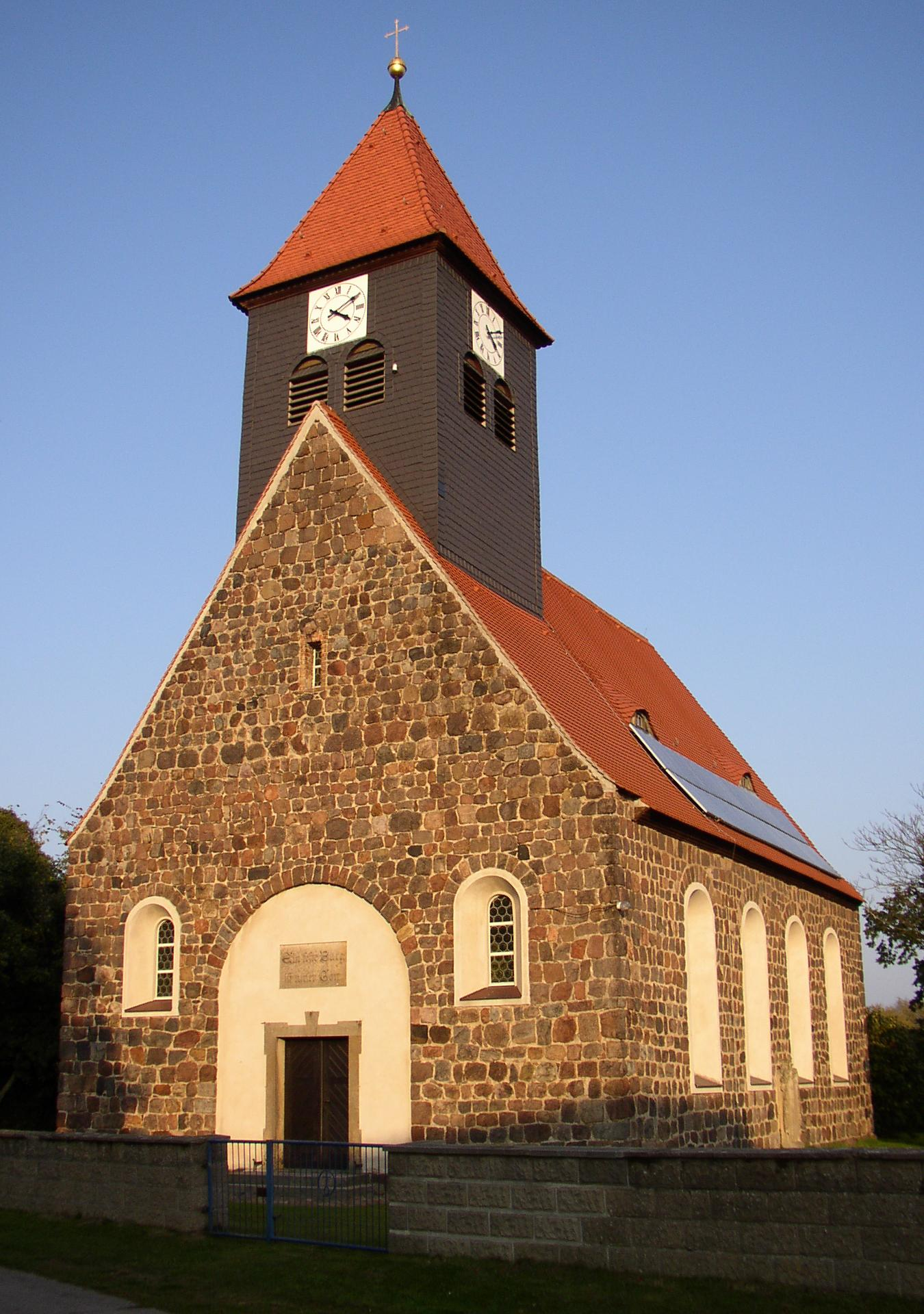 Church in Niedergörsdorf-Blönsdorf in Brandenburg, Germany